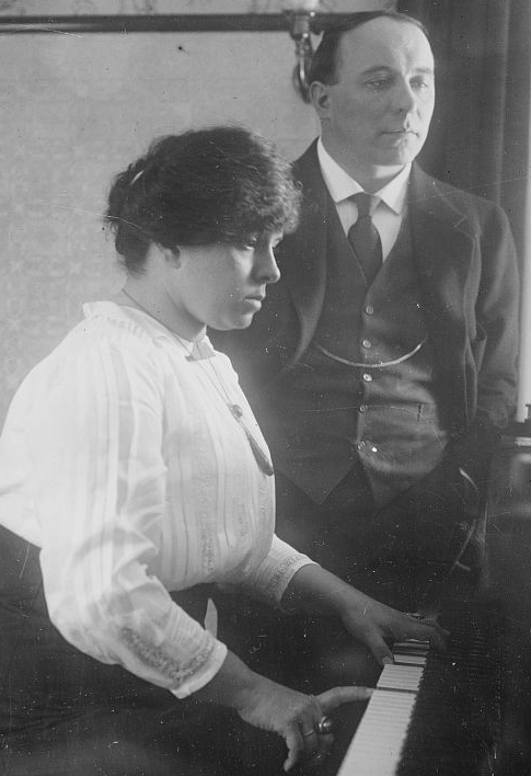 Italian opera singer Giovanni Zenatello (1876-1949) with Spanish opera singer Maria Gay (1879-1943)